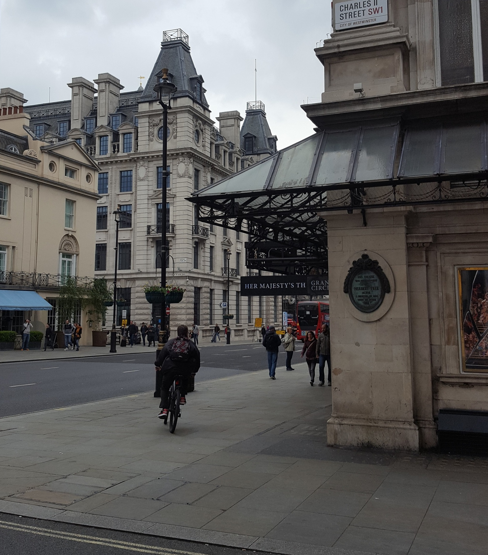 photographed on Charles Street in the district of Mayfair in central London